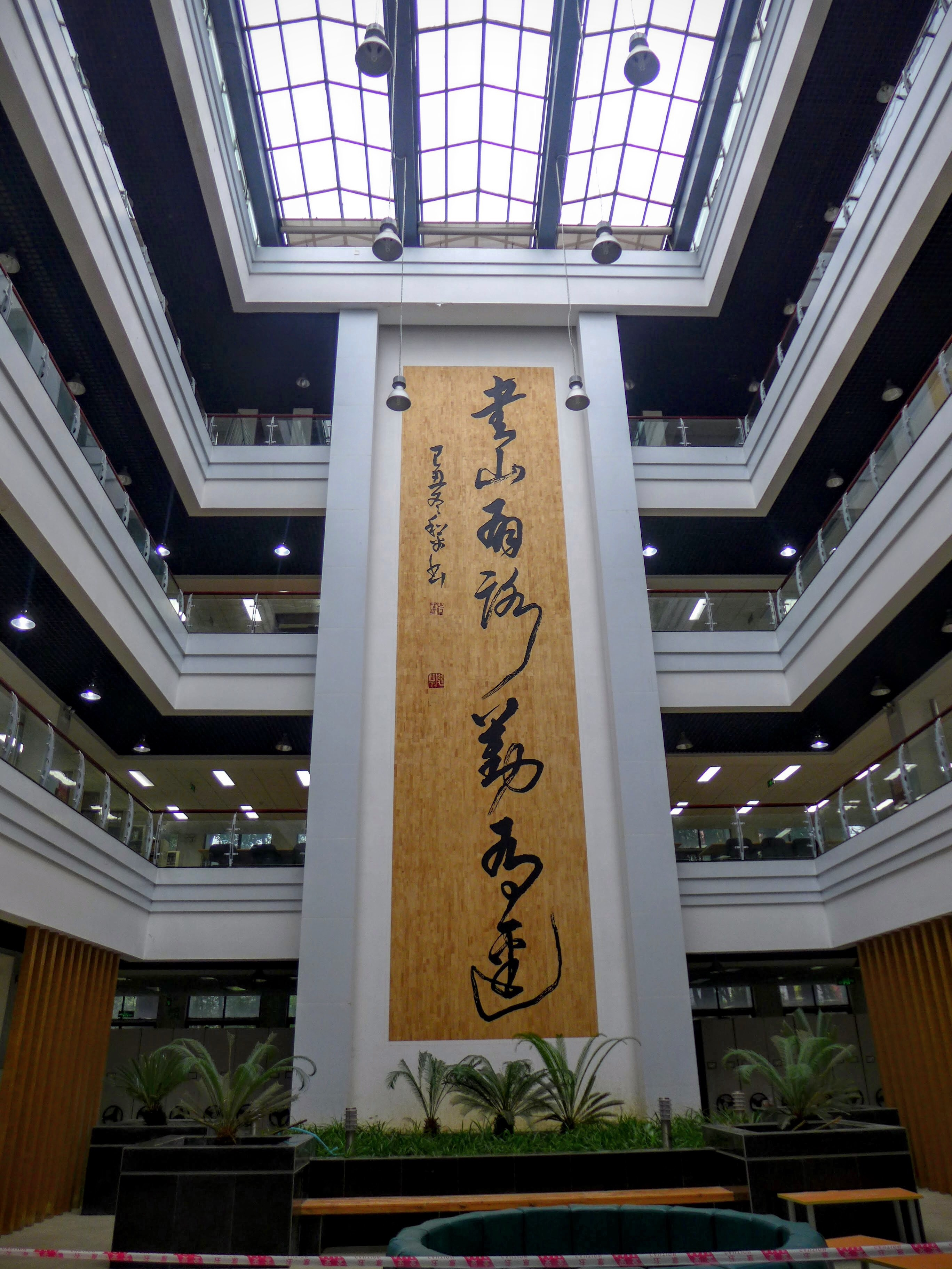 View from a central atrium of the library building on Sichuan University's Wangjiang campus